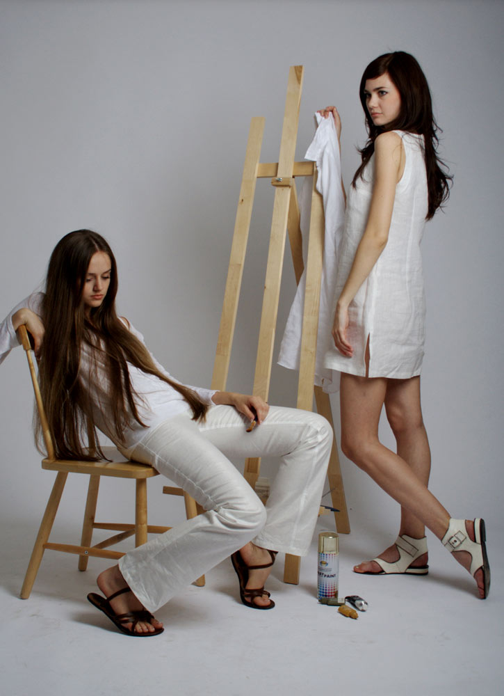 Pitti Women